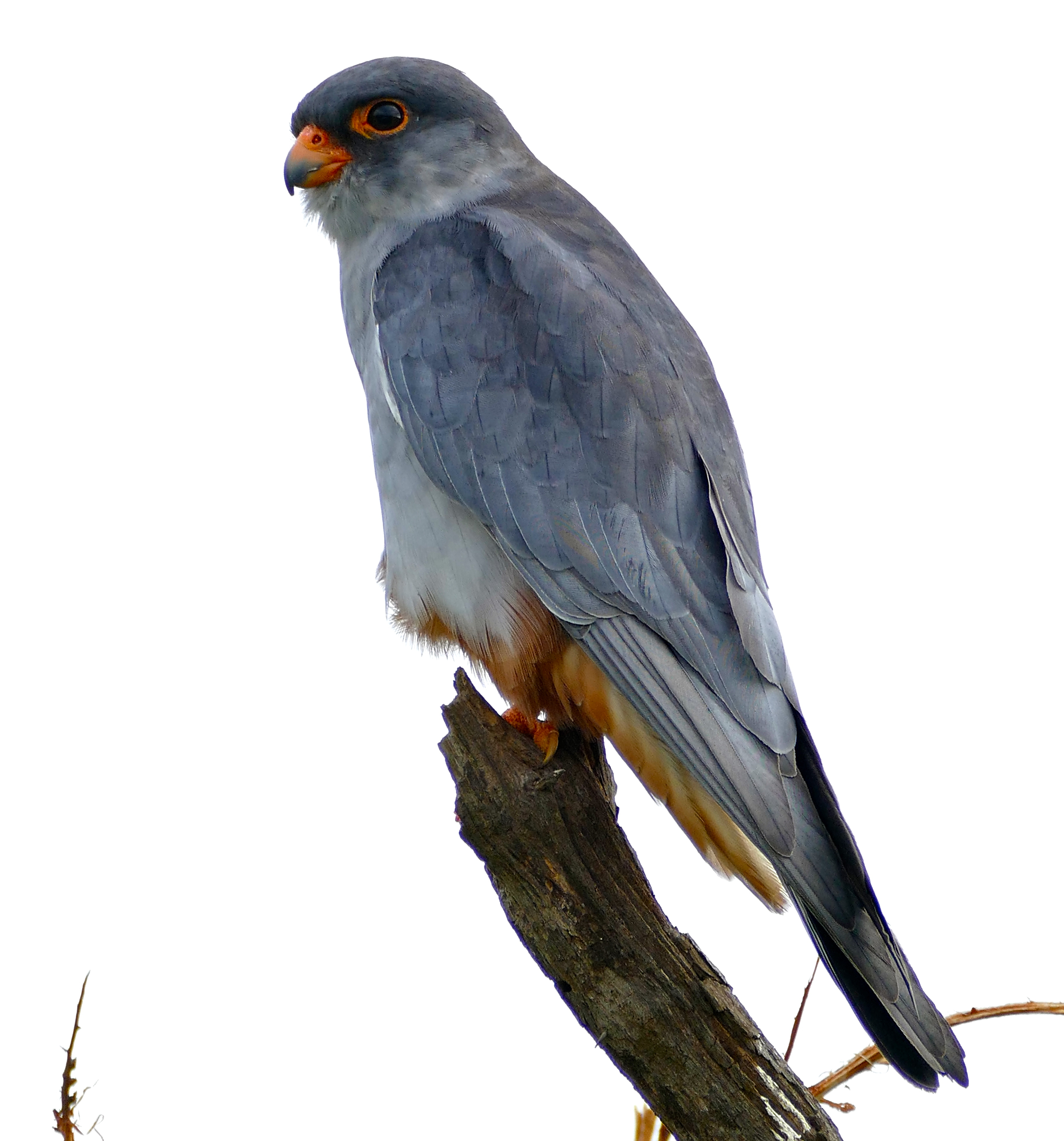 S30 Road North of Lower Sabie, Kruger NP, SOUTH AFRICA